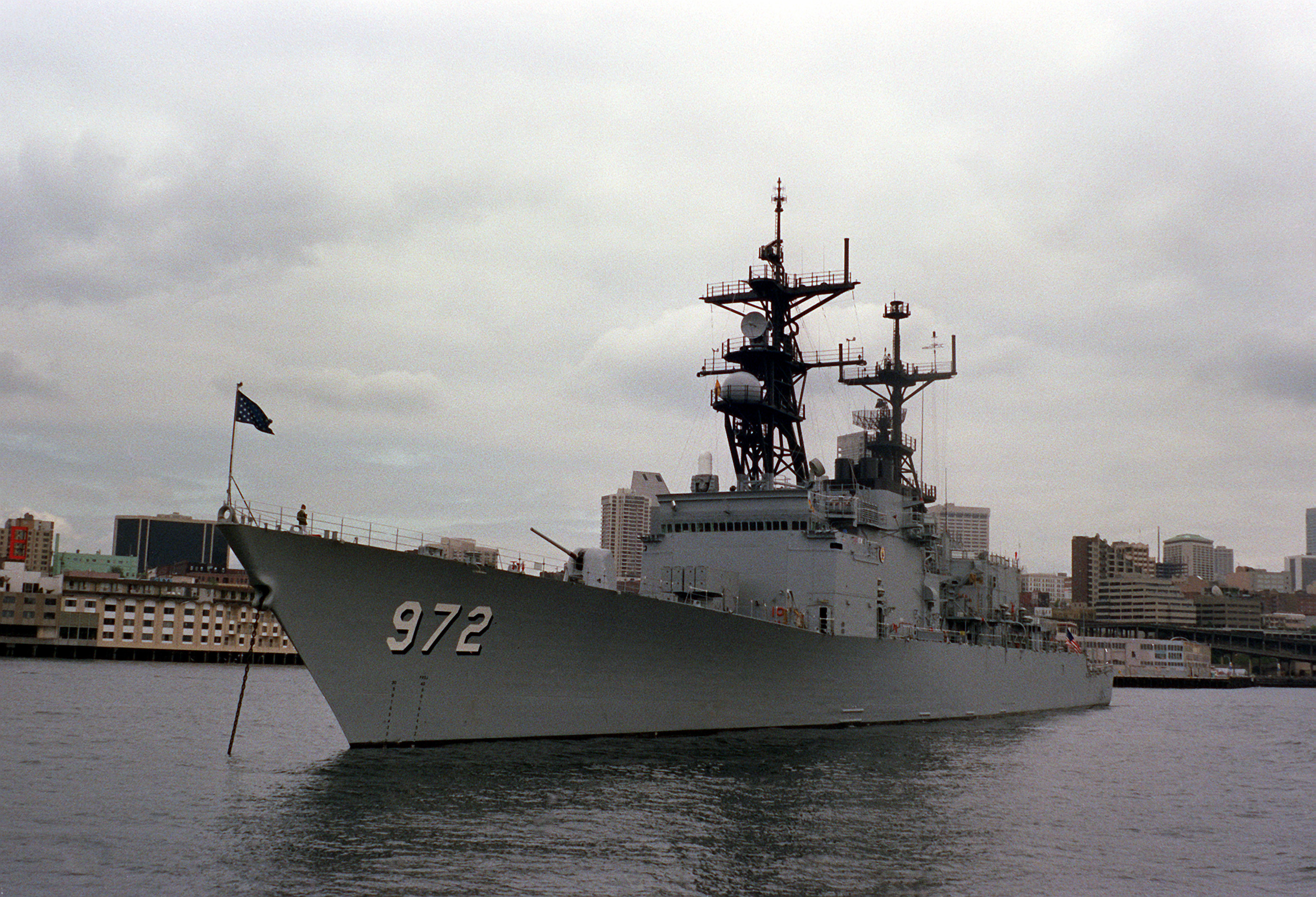 A port bow view of the Spruance class destroyer USS OLDENDORF (DD-972) with the city visible in the background. Location: SEATTLE, WASHINGTON (WA) UNITED STATES OF AMERICA (USA)